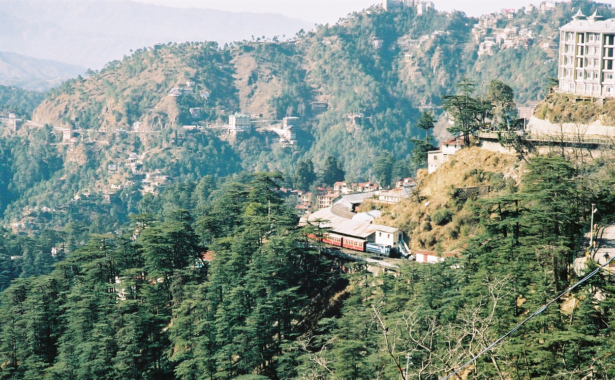 Kalka-Simla Railway. A train is seen in Shimla Station from the other side of the town. 13th February 2005 Photographer - A.M.Hurrell Camera - Minolta X700 (35mm film) Modified - Scanned by film developer. File size and definition changed using Adobe Photoshop 5.0LE